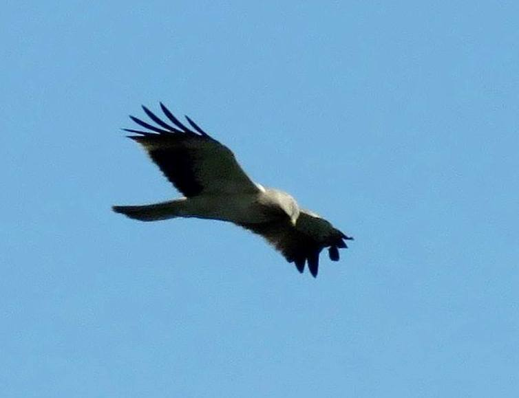 Wahlberg's eagle in flight at Vencor near Pietersburg, Limpopo, South Africa